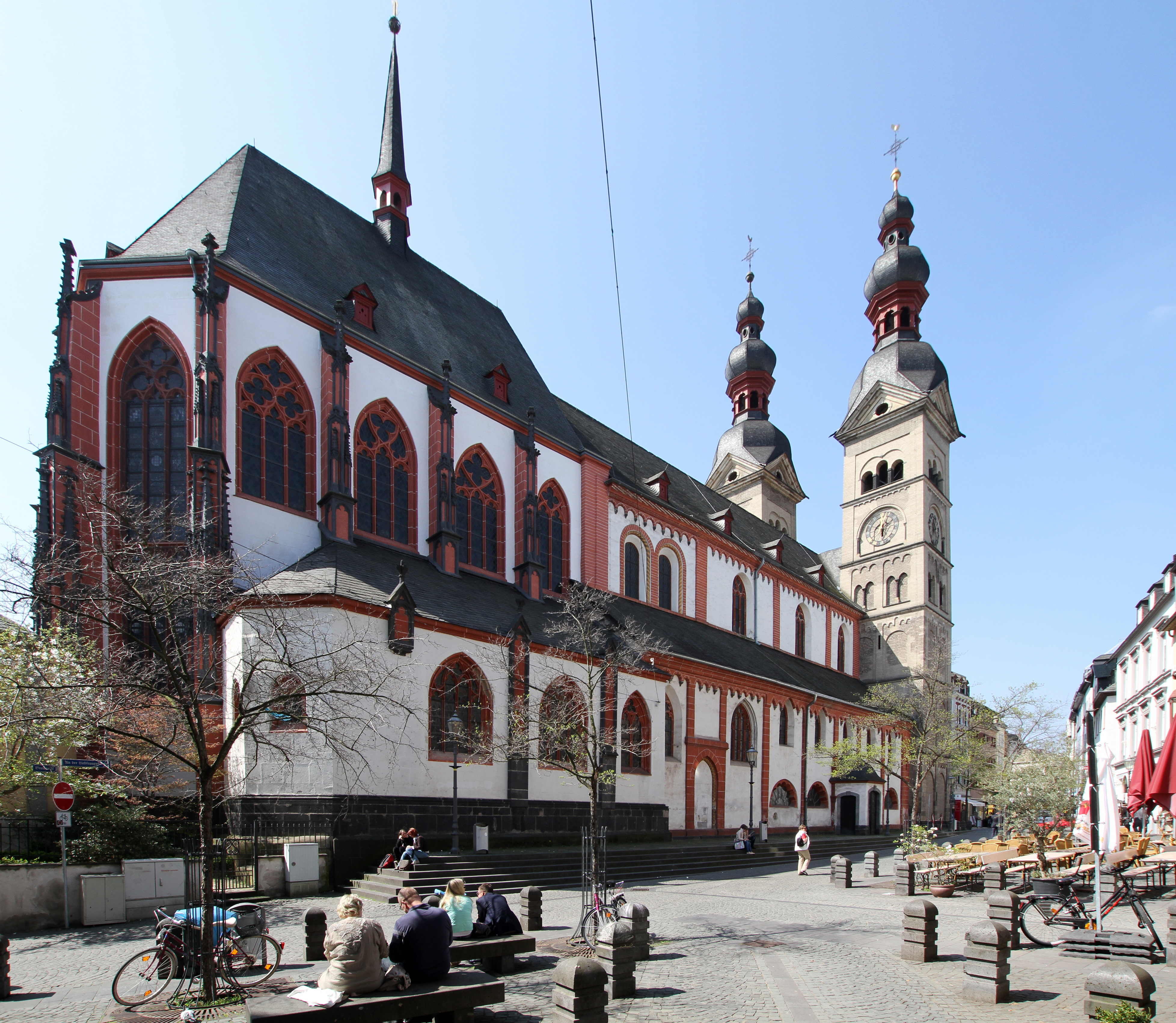 Church Liebfrauen in Koblenz, Germany